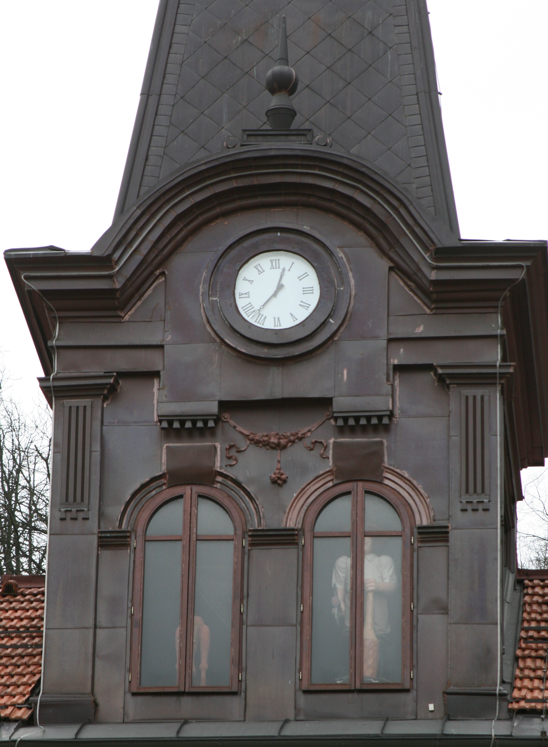 ghostly figure